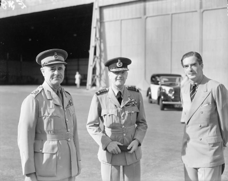 Anthony Eden's Tour of Palestine, October 1940 Secretary of State for War Anthony Eden with General Sir Archibald Wavell (GOC-in-C Middle East) and Air Chief Marshal Sir Arthur Longmore (AOC-in-C), October 1940.